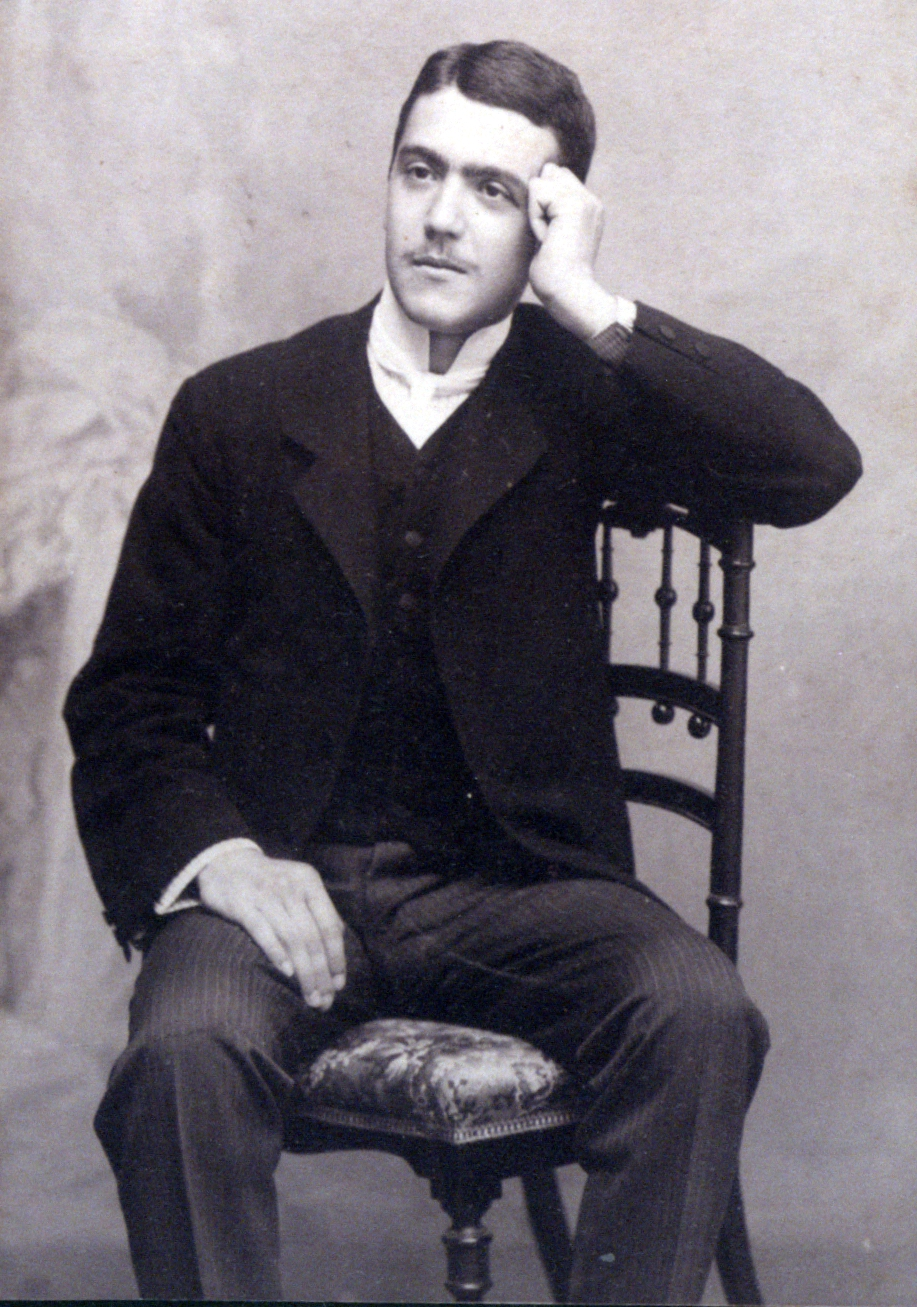 Portuguese historian Fidelino de Figueiredo